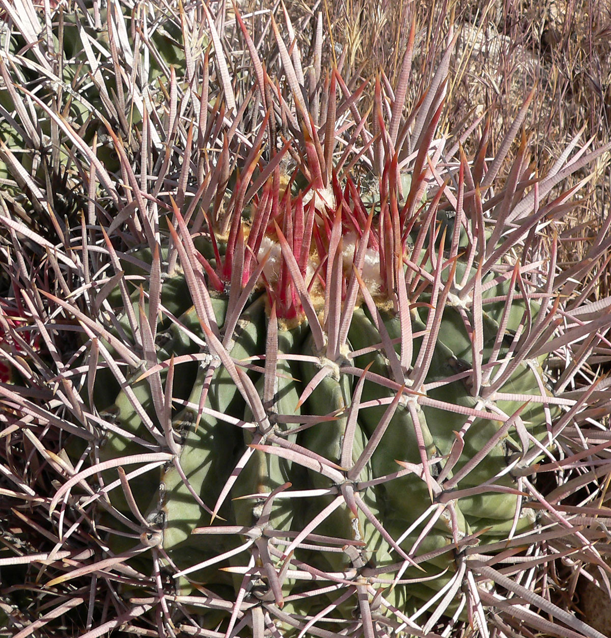 Echinocactus polycephalus in Calico Basin, Spring Mountains, west of Las Vegas, Nevada